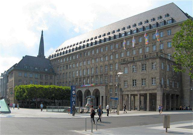 City Hall Bochum